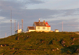 The lighthouse at Torsvåg. The photographer, Morten Dreier, must always be credited.